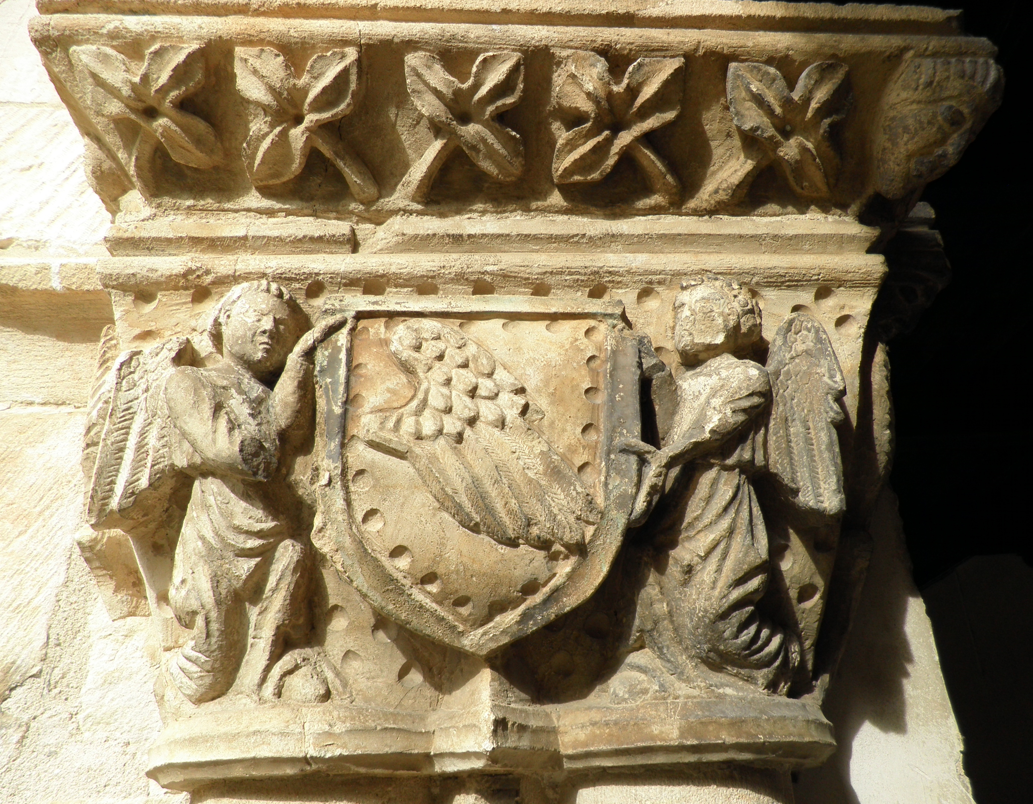 15th capital in easthern corridor of the church of Santa María la Real de Nieva, Segovia province, Spain. Coat with a wing between two angels.